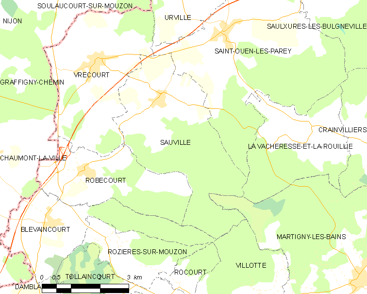 Map of French municipality Sauville